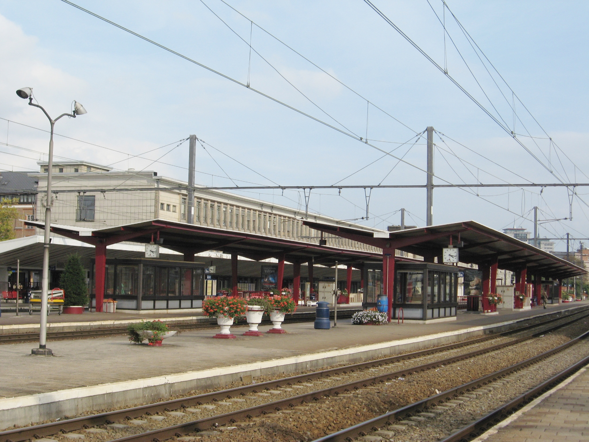 Train station of Hasselt, Limburg, Belgium